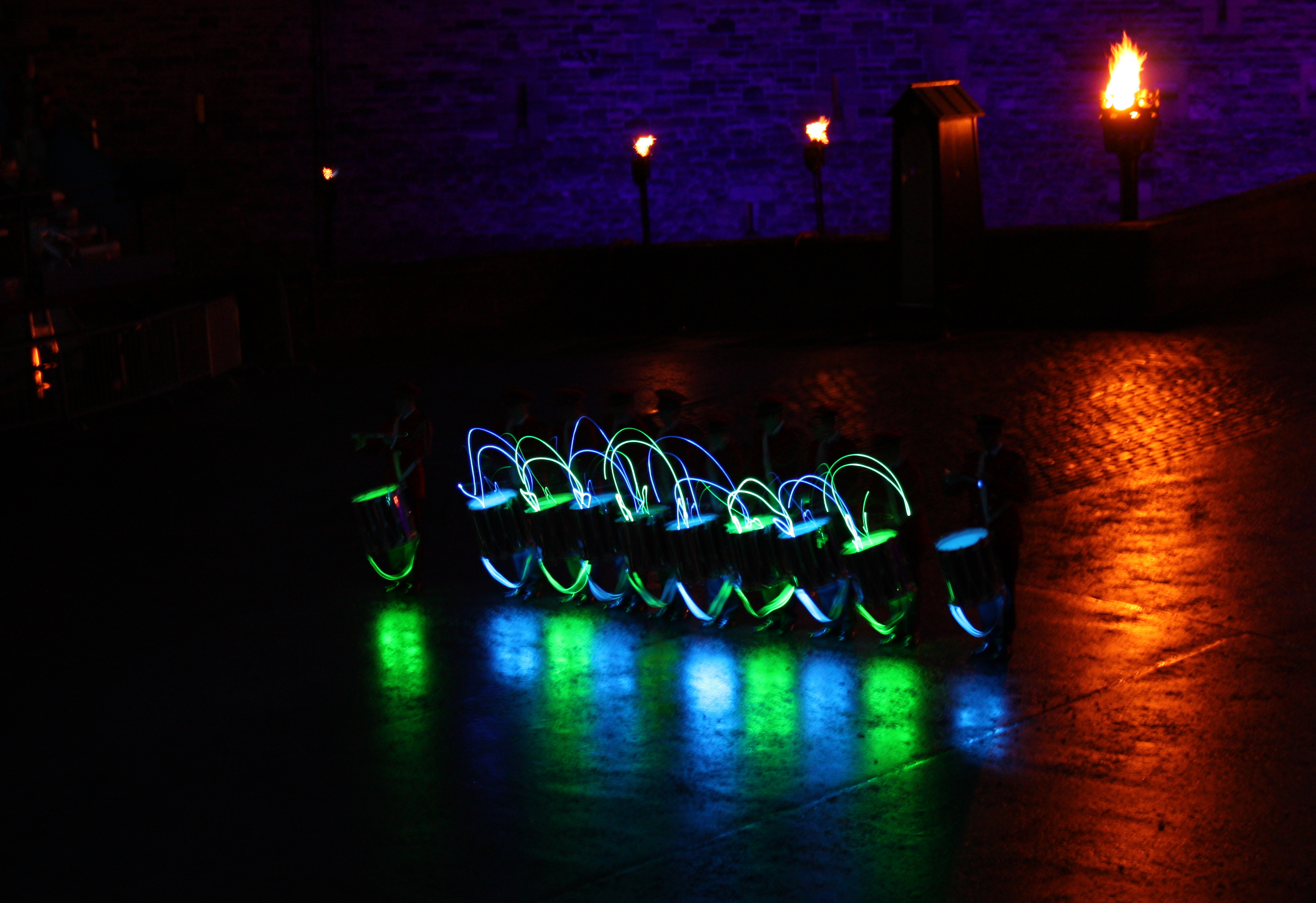 The show of the Swiss Army Central Band at the 2009 edition of the Edinburgh Military Tattoo.